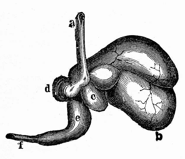 Stomach of a beef. a: esophagus b: rumen c: reticulum d: psalterium e: abomasum f: enteron